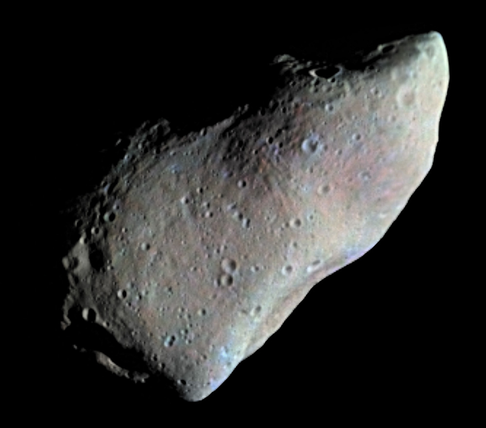 Asteroid en:951 Gaspra. Calvin J. Hamilton's website View of the Solar System describes this image as follows: "This picture Gaspra is a combination of the highest-resolution images and color information obtained by the Galileo spacecraft. The Sun is shining from the right. The subtle color variations on Gaspra's surface have been exaggerated. Albedo and color variations are associated with surface topography. The bluish areas are regions of slightly higher albedo and tend to be associated with some of the crisper craters and with ridges. The slightly reddish areas, apparently concentrated in low areas, represent regions of somewhat lower albedo. In general, such patterns can be explained in terms of greater exposure of fresher rock in the brighter bluish areas and the accumulation of some regolith materials in the darker reddish areas. (Courtesy USGS/NASA/JPL)" [1]